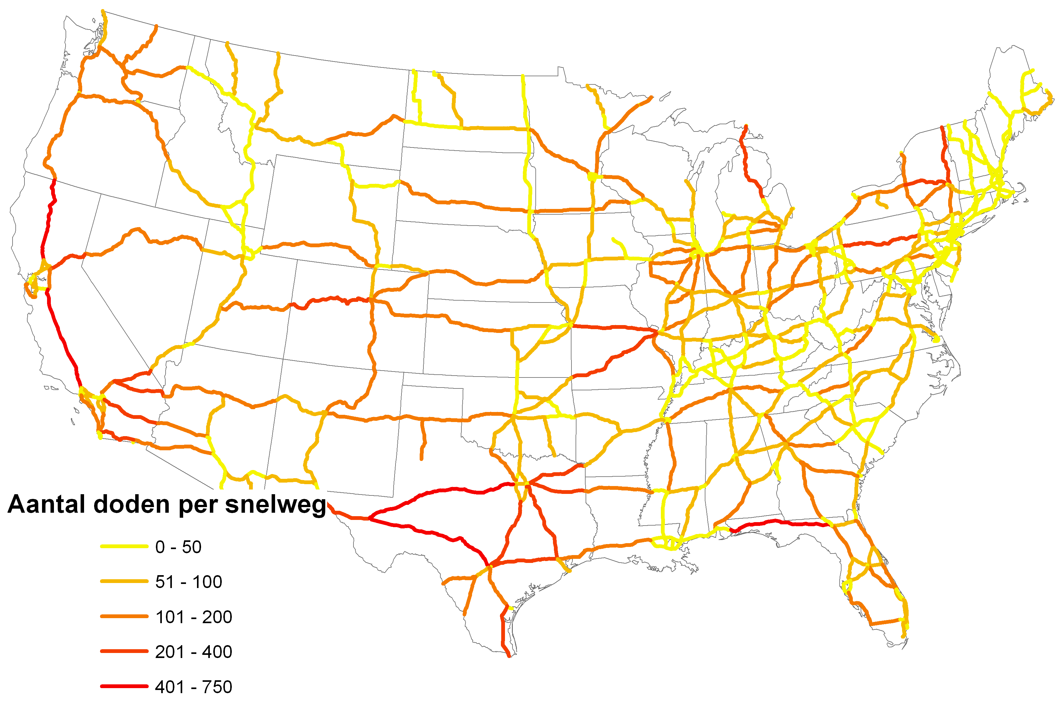 Map of the number of traffic deaths on freeways/interstates in the United States. The distribution of the deaths to specific roads is fake, but based on the actual number of deaths (42,636) in 2004, and a road length of 50,000 miles. For the sake of example, the deaths have been allocated to the states based on a formula that's unlikely to match reality. Thus, this may be a useful example of a particular style of map, but not very useful for illustrations of the United States.